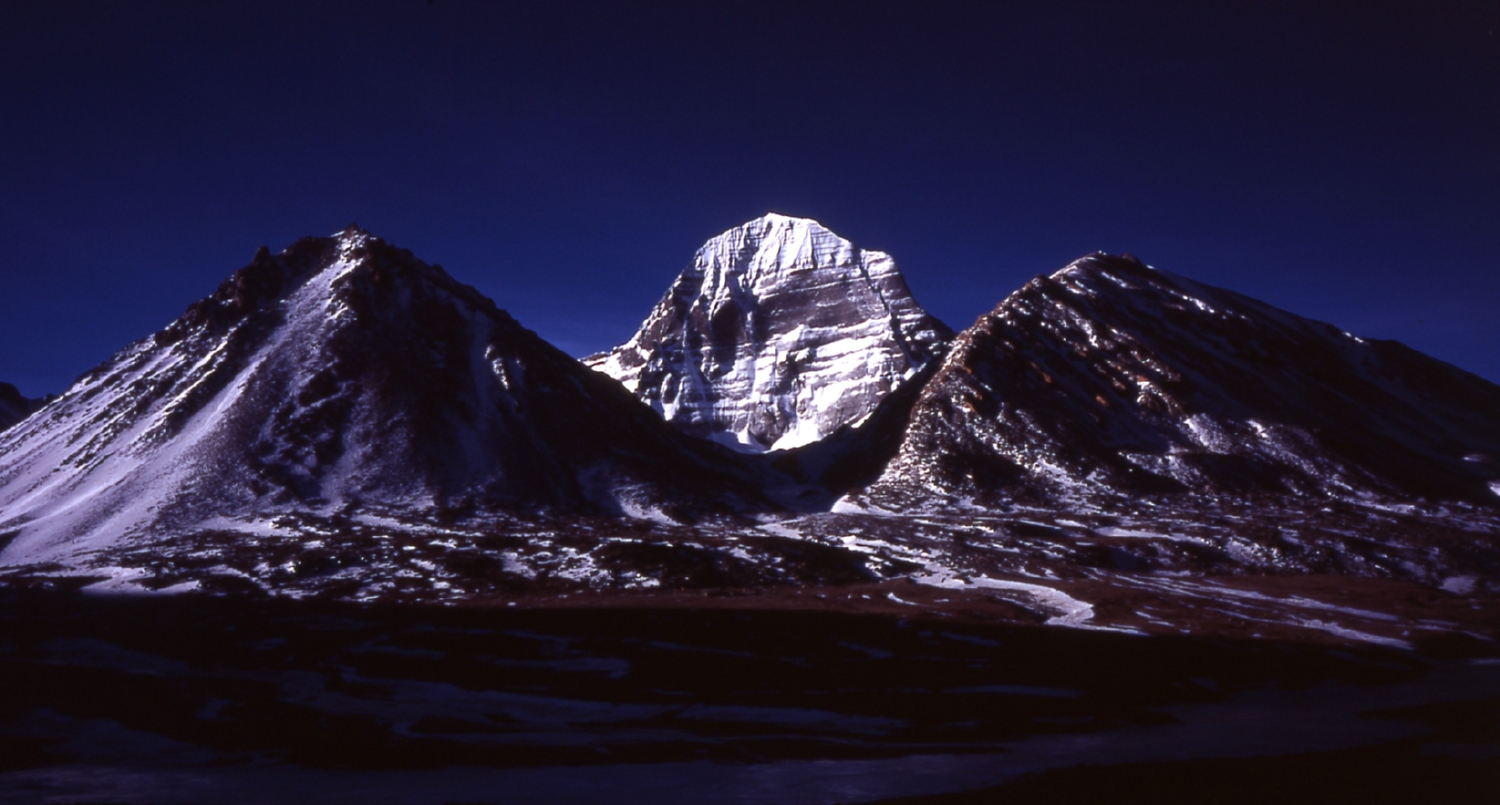 Mount Kailash, North face, morning.